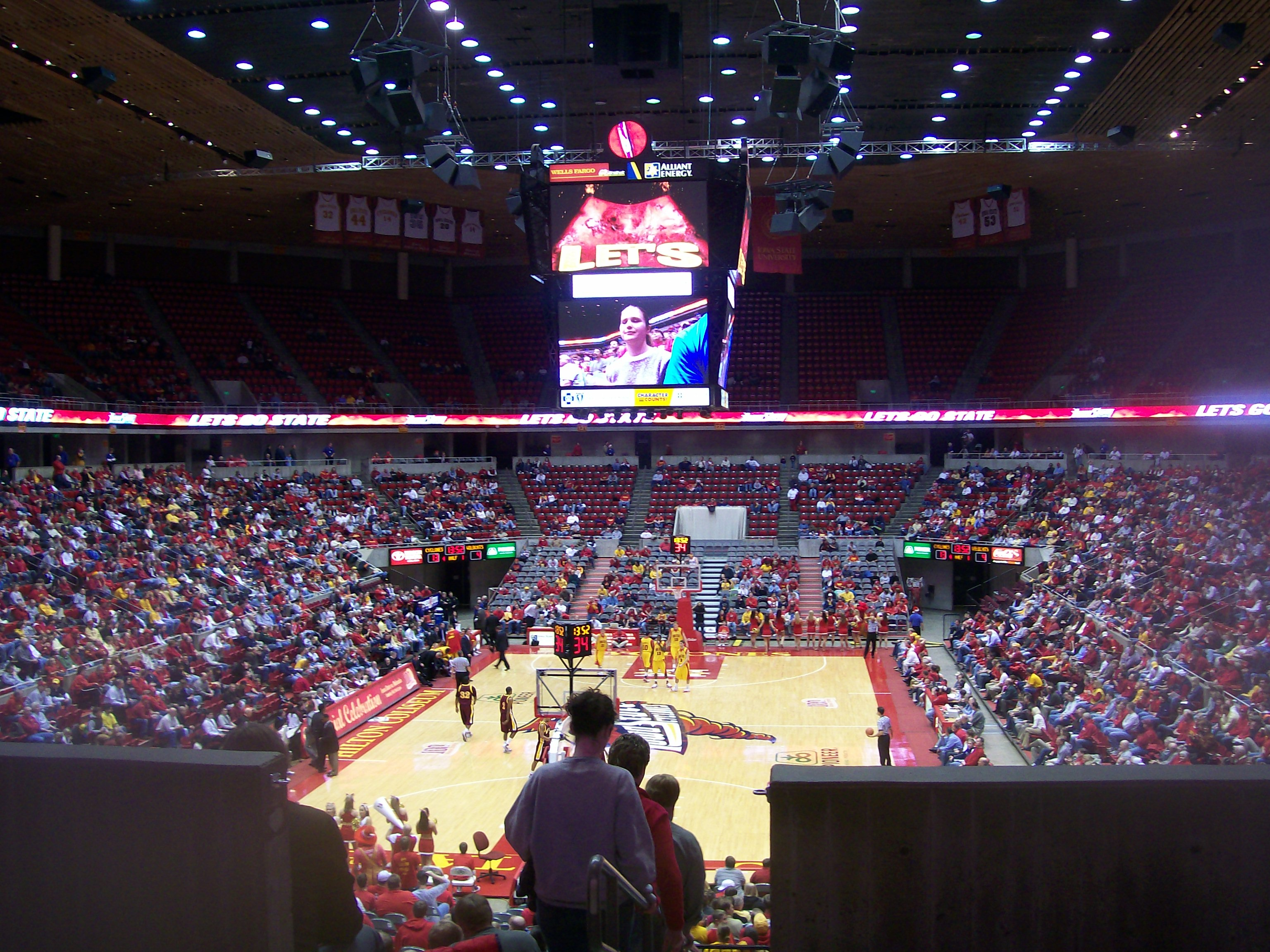 Hilton Mens basketball game